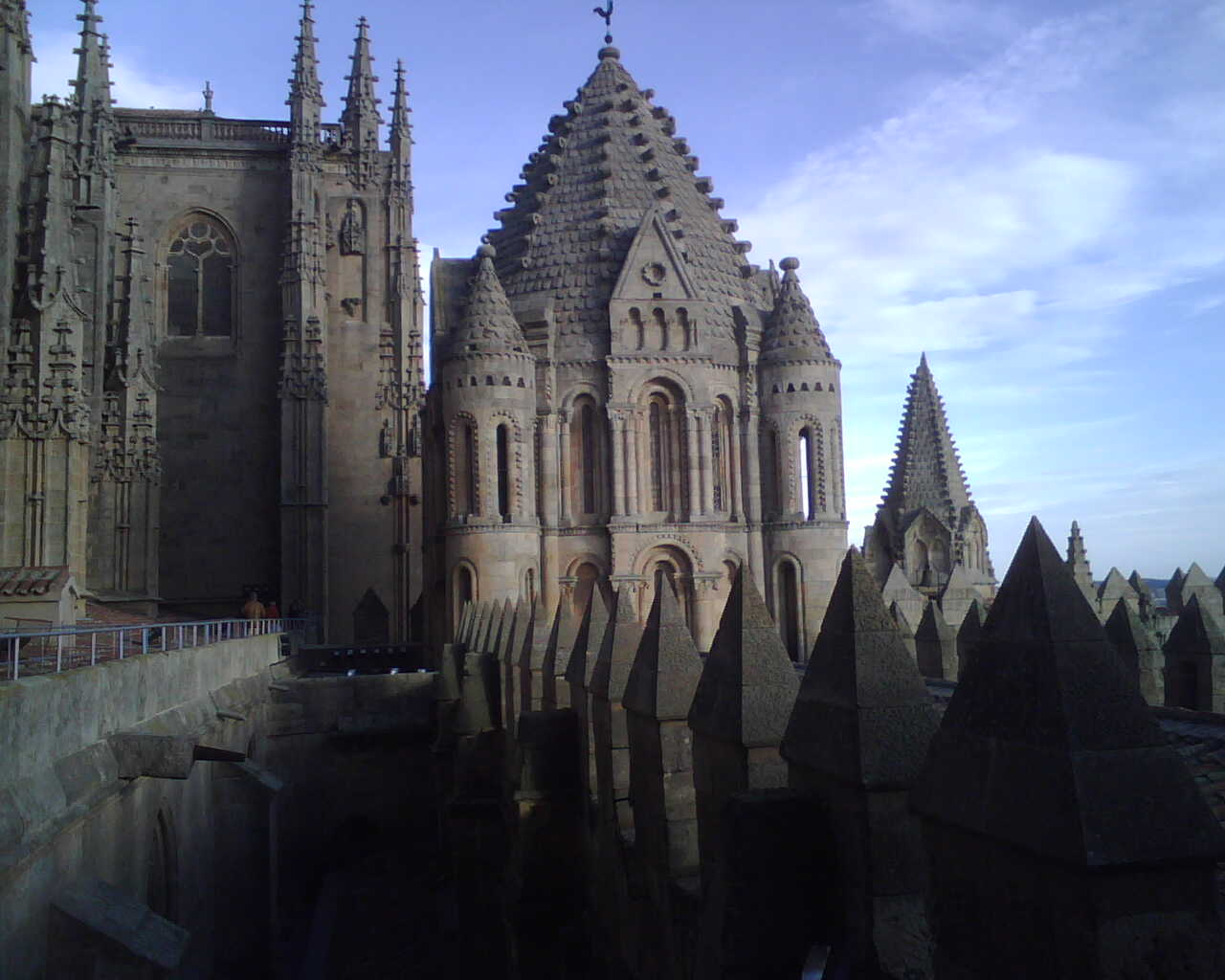 "Torre del Gallo" of the Romanesque Old Cathedral of Salamanca, Spain